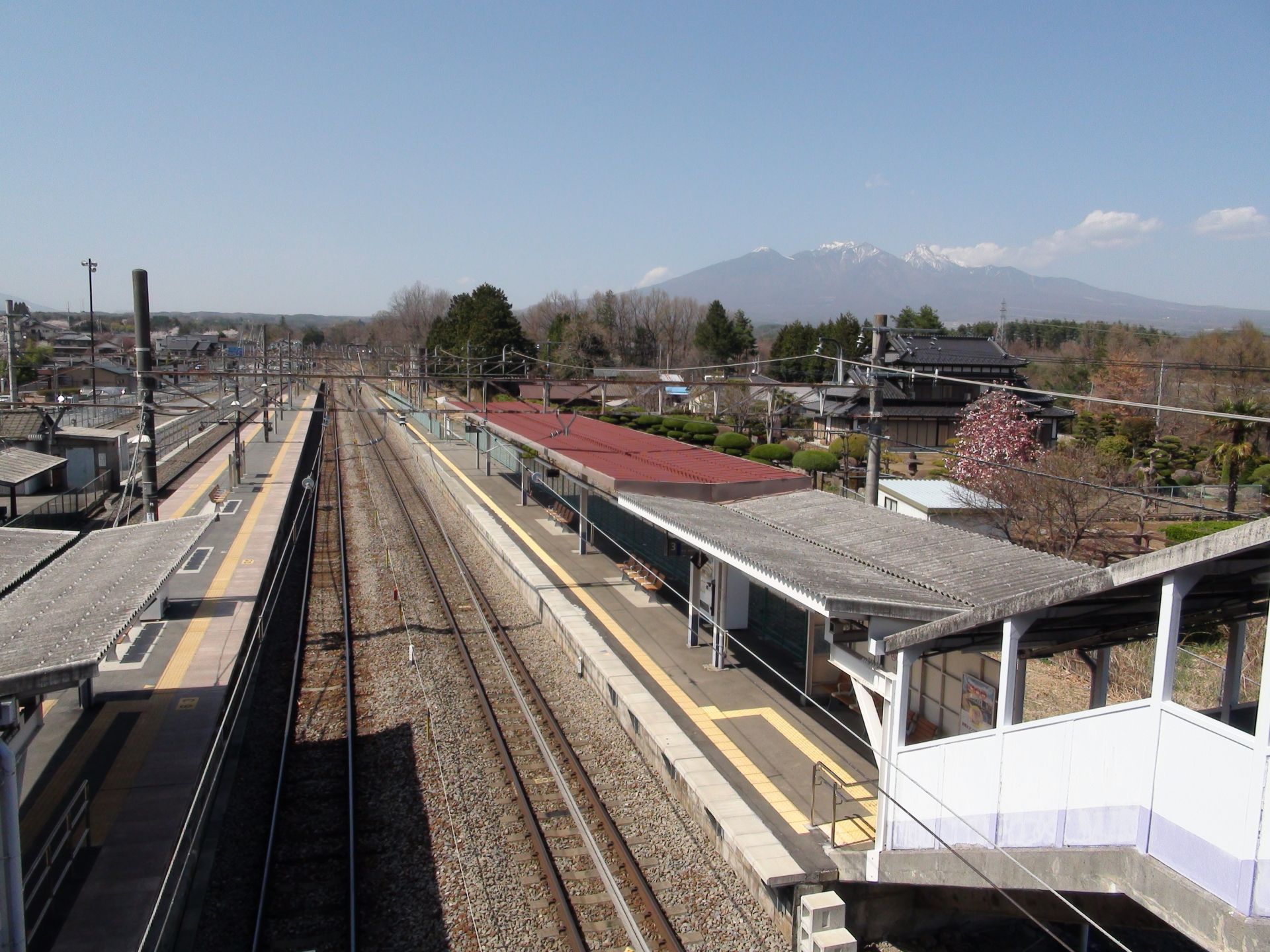 Mt. Yatsugatake is photoed from Hinoharu Station.